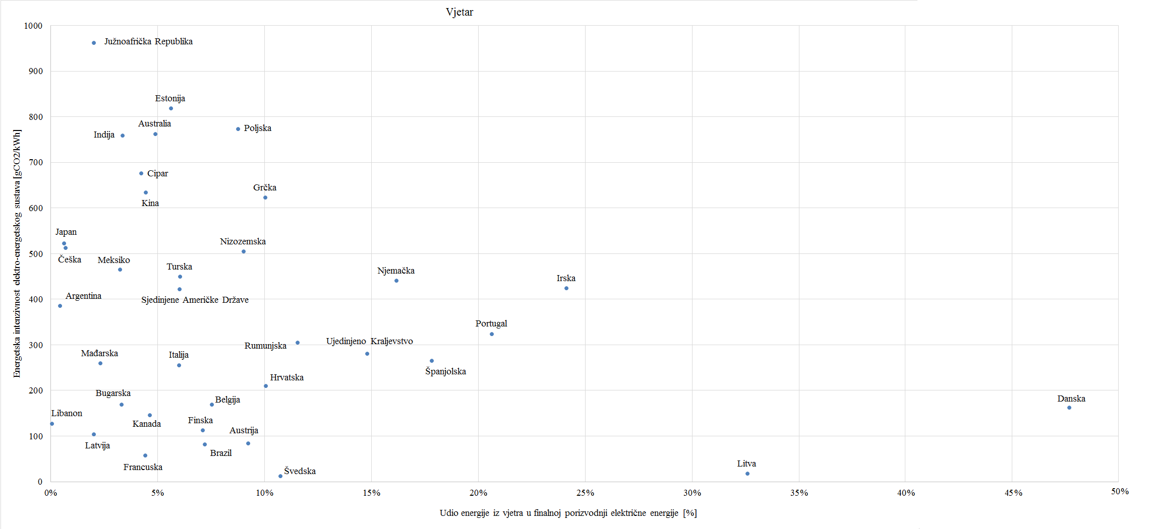 intenzivnost vjetra